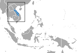 Red-shanked Douc (Pygathrix nemaeus) range